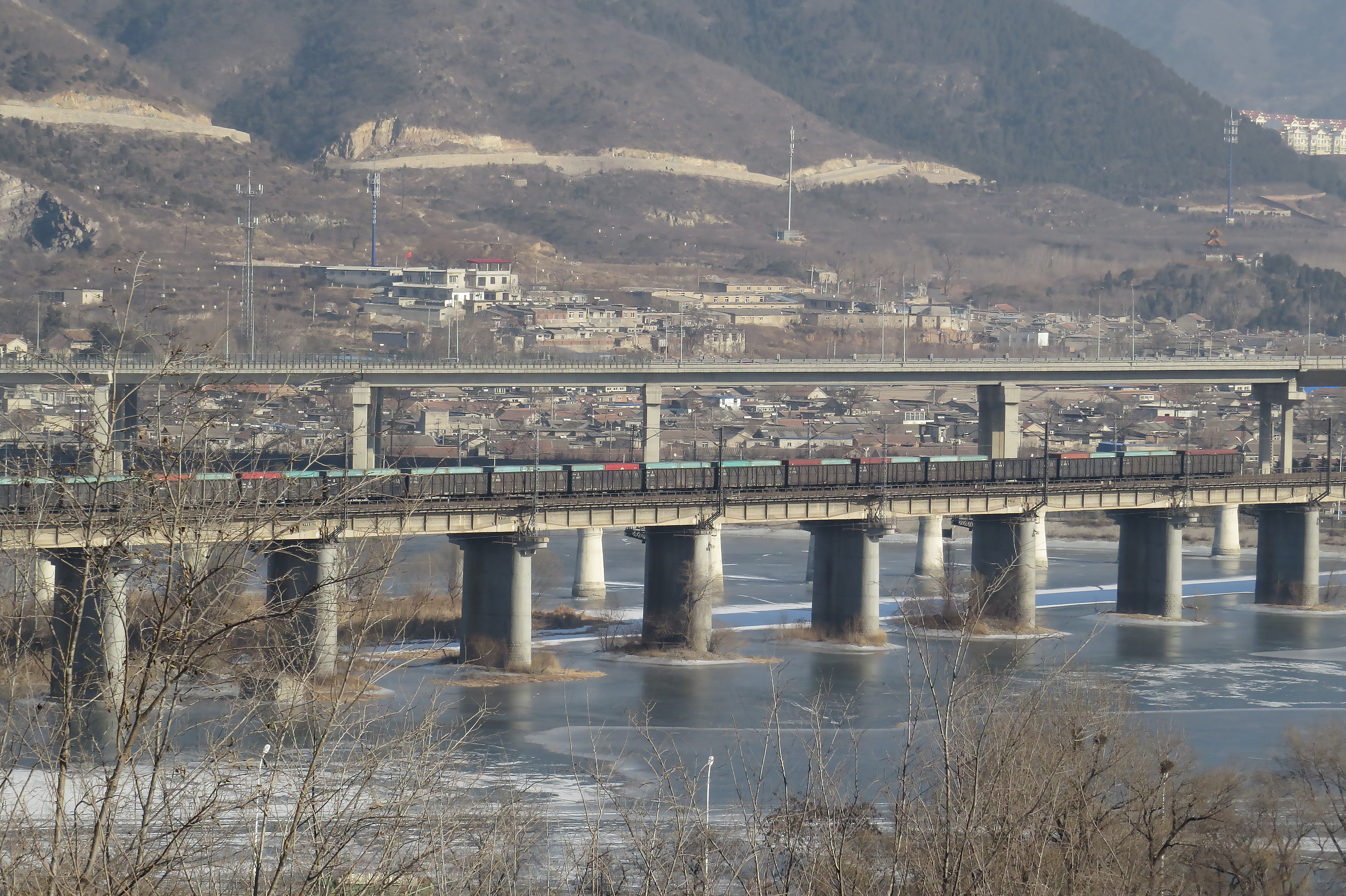 Hauled by HXD2-1110.